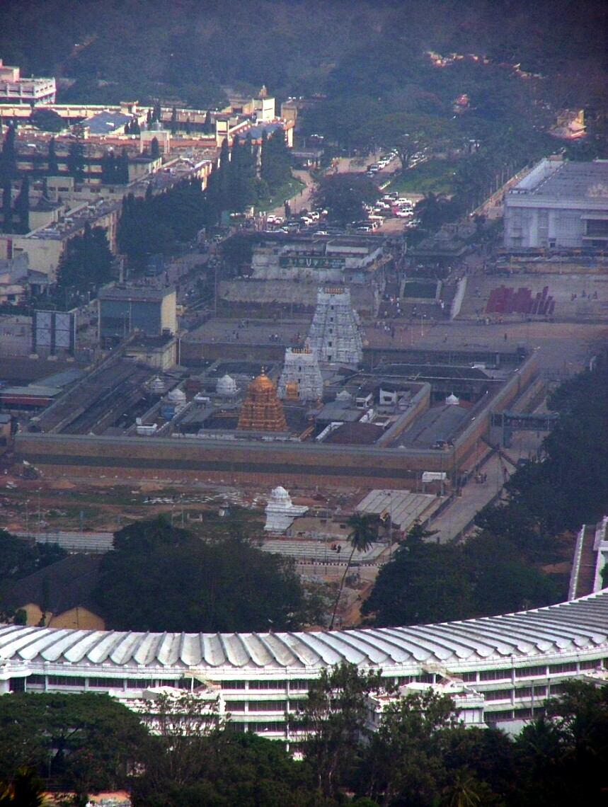 Tirumala Venkateswara Temple and surroundings. Seen in the temple campus are the outer gopuram, inner gopuram and gold plated gopuram. In the foreground, Vaikuntam Queue Complex is seen as a semicircular structure.